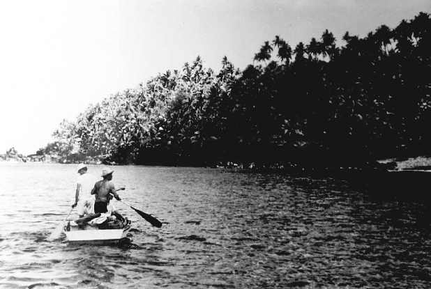 Small boat approaches Anatahan in June 1950